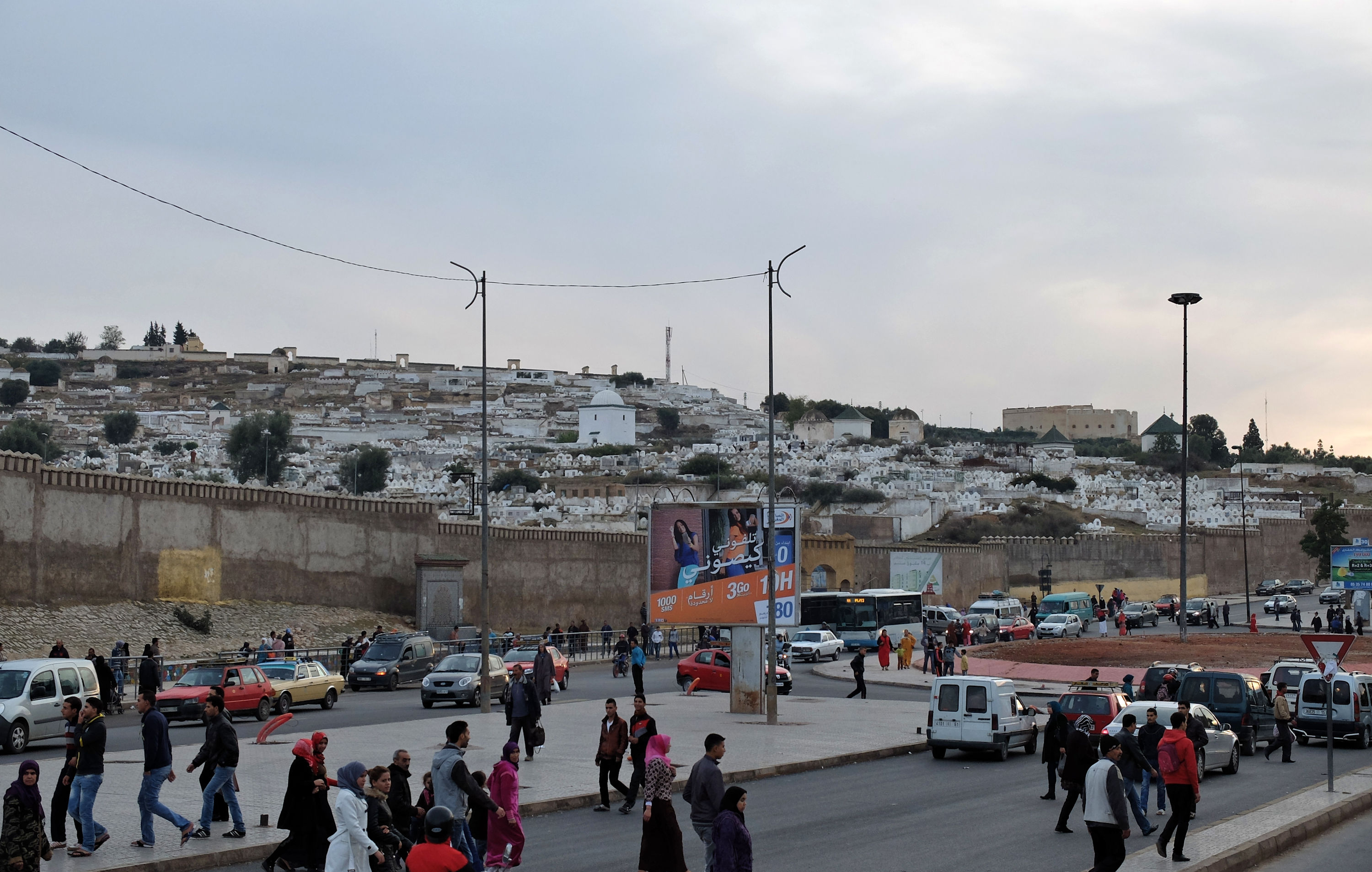 Bab Ftouh cemetery, Fes. Borj Sud is visible in the distance on the right.